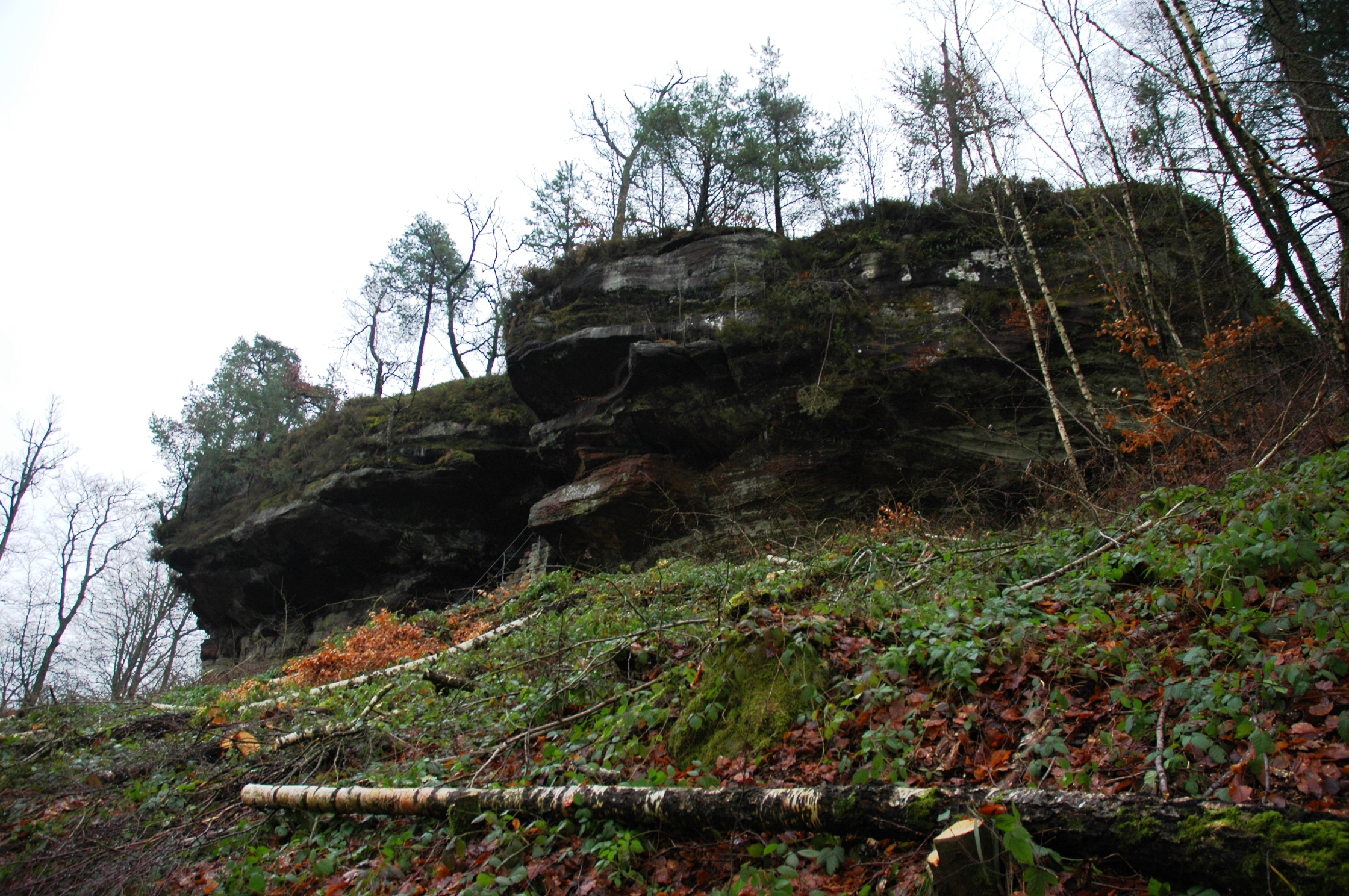 rock of castle Ruppertstein